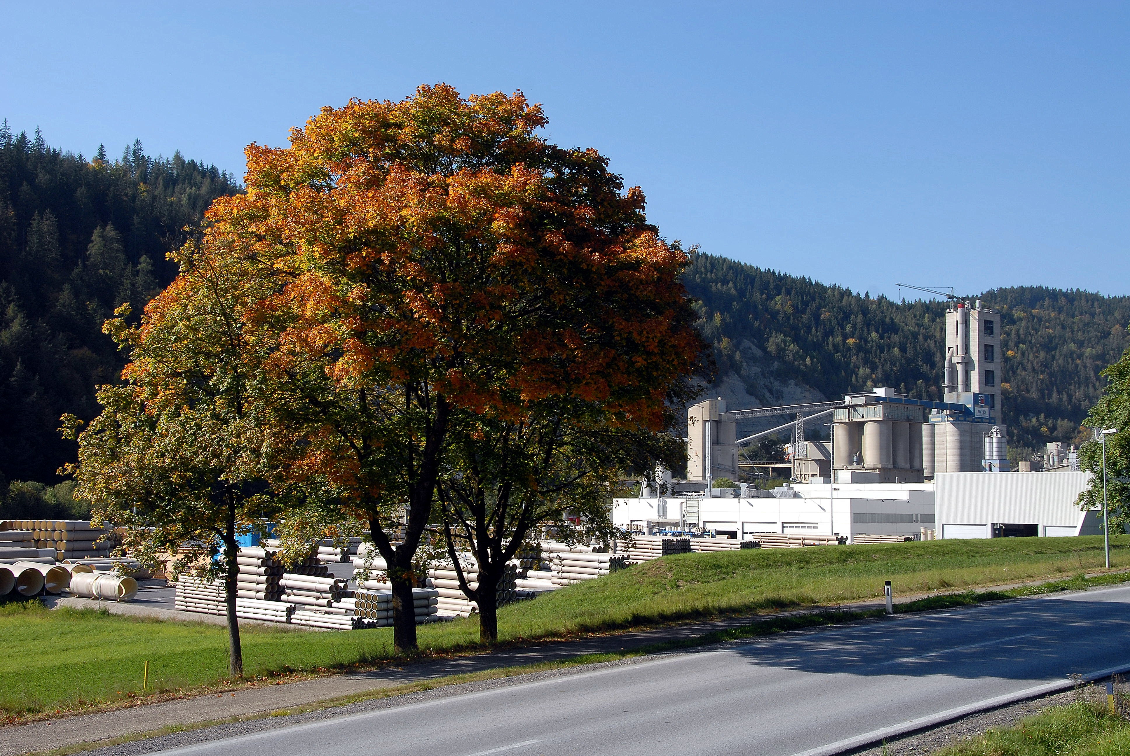 Cement works at Wietersdorf #1, municipality Klein Sankt Paul, district Sankt Veit an der Glan, Carinthia / Austria / EU